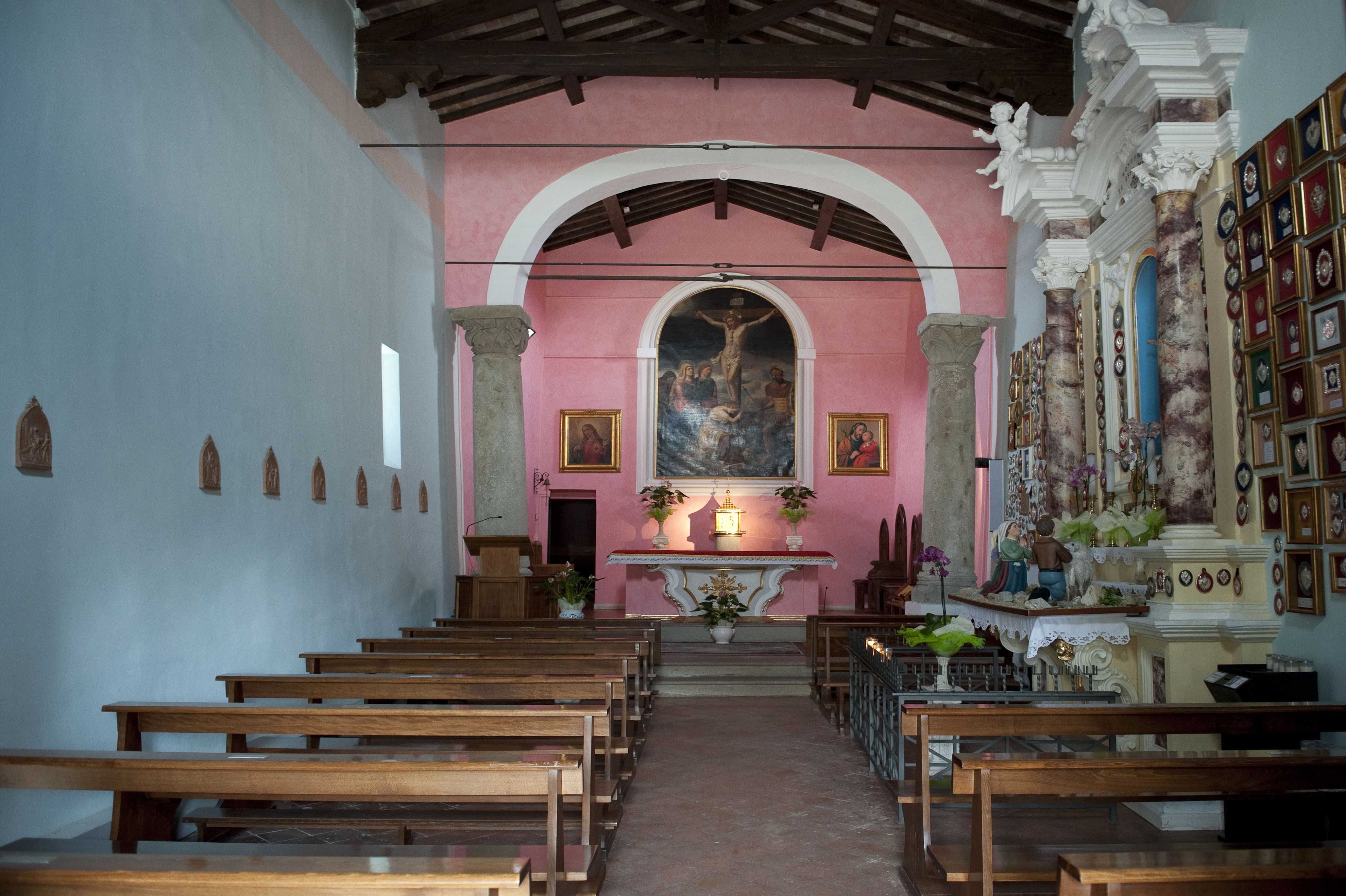 Interior of the Pieve (Church) of San Frediano, Montignoso, Gambassi Terme